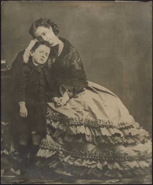 Empress Eugenie and her son.